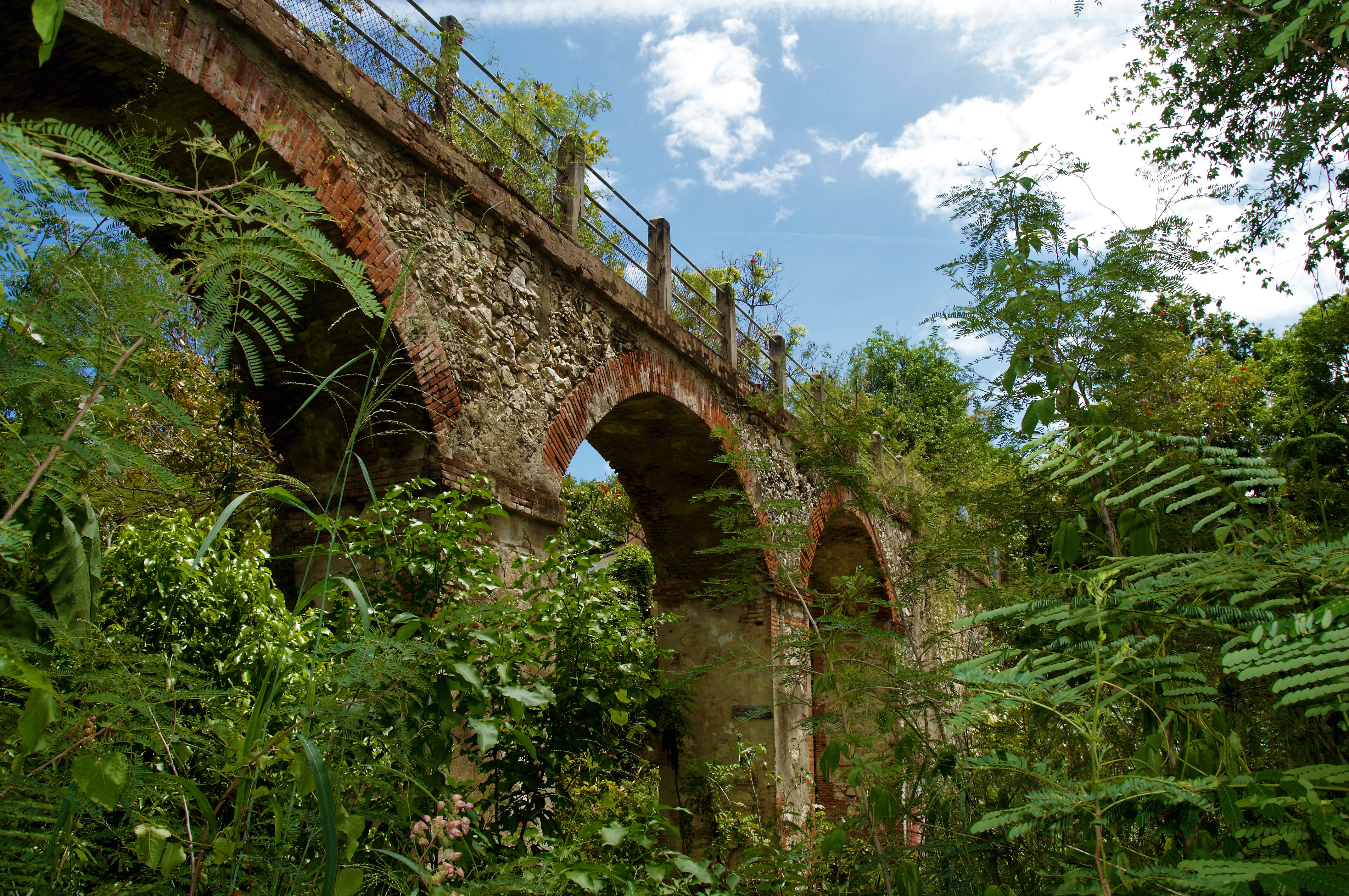 Bridge part of the Alfonso XII Aqueduct in Ponce, Puerto Rico